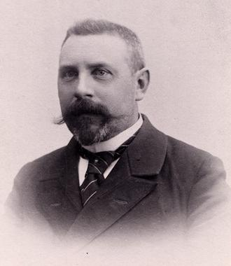 photo of Jens Jensen (trade unionist)